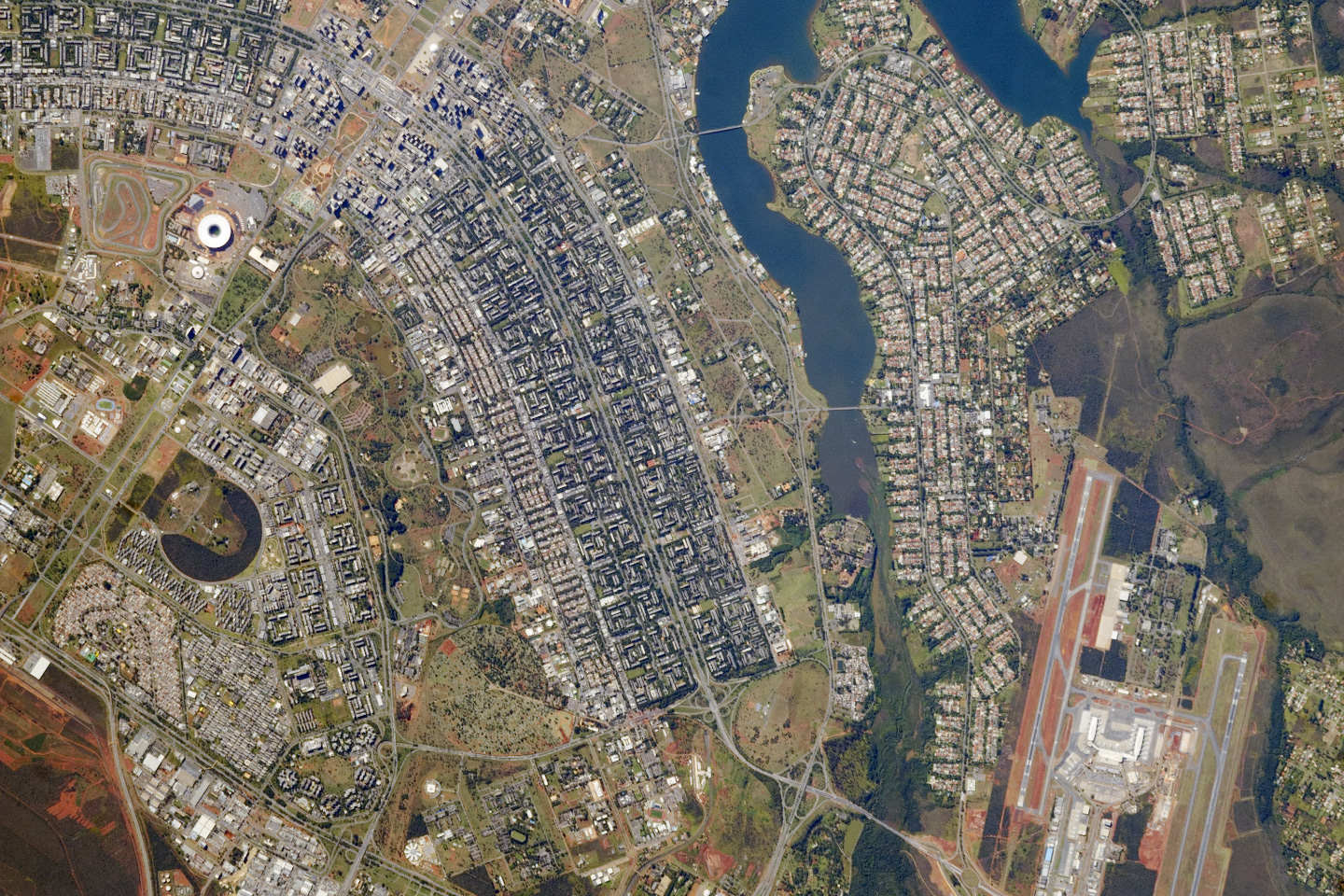 Brazil’s national football stadium, the Estado Nacíonal, lies near the heart of the capital city of Brasília. The roof appears as a brilliant white ring in this photograph taken from the International Space Station. The stadium is one of Brasília’s largest buildings. Renovation began in 2010, and it is now the second most expensive stadium in the world after Wembley Stadium in London. To accommodate World Cup fans visiting from all over the world, renovations were made to nearly all modes of transportation—particularly airports—in Brasília and other host cities. Brasília’s international airport is visible at lower right, on the far side of Lake Paranoá. (Note that the image is rotated so that north is to the left.) Brasília is widely known for its modern building designs and city layout. Astronauts have the best view of the city’s well-known “swept wing” city layout, which takes the form of a flying bird that is expressed in the curves of the boulevards (image left). The stadium occupies the city center, between the wings. Credit: ISS Read more/high res: Credit: NASA Earth Observatory NASA image use policy. NASA Goddard Space Flight Center enables NASA’s mission through four scientific endeavors: Earth Science, Heliophysics, Solar System Exploration, and Astrophysics. Goddard plays a leading role in NASA’s accomplishments by contributing compelling scientific knowledge to advance the Agency’s mission. Follow us on Twitter Like us on Facebook Find us on Instagram